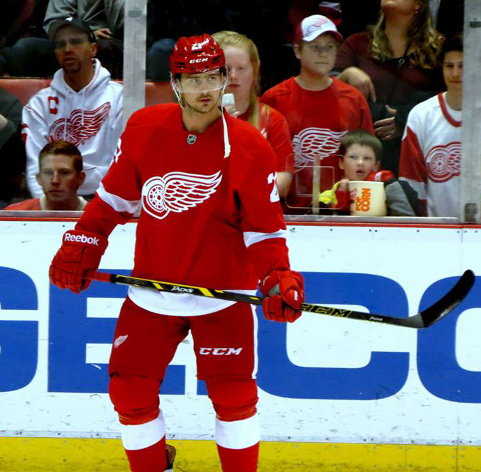 Tomas Tatar warms up with the Detroit Red Wings before a game.